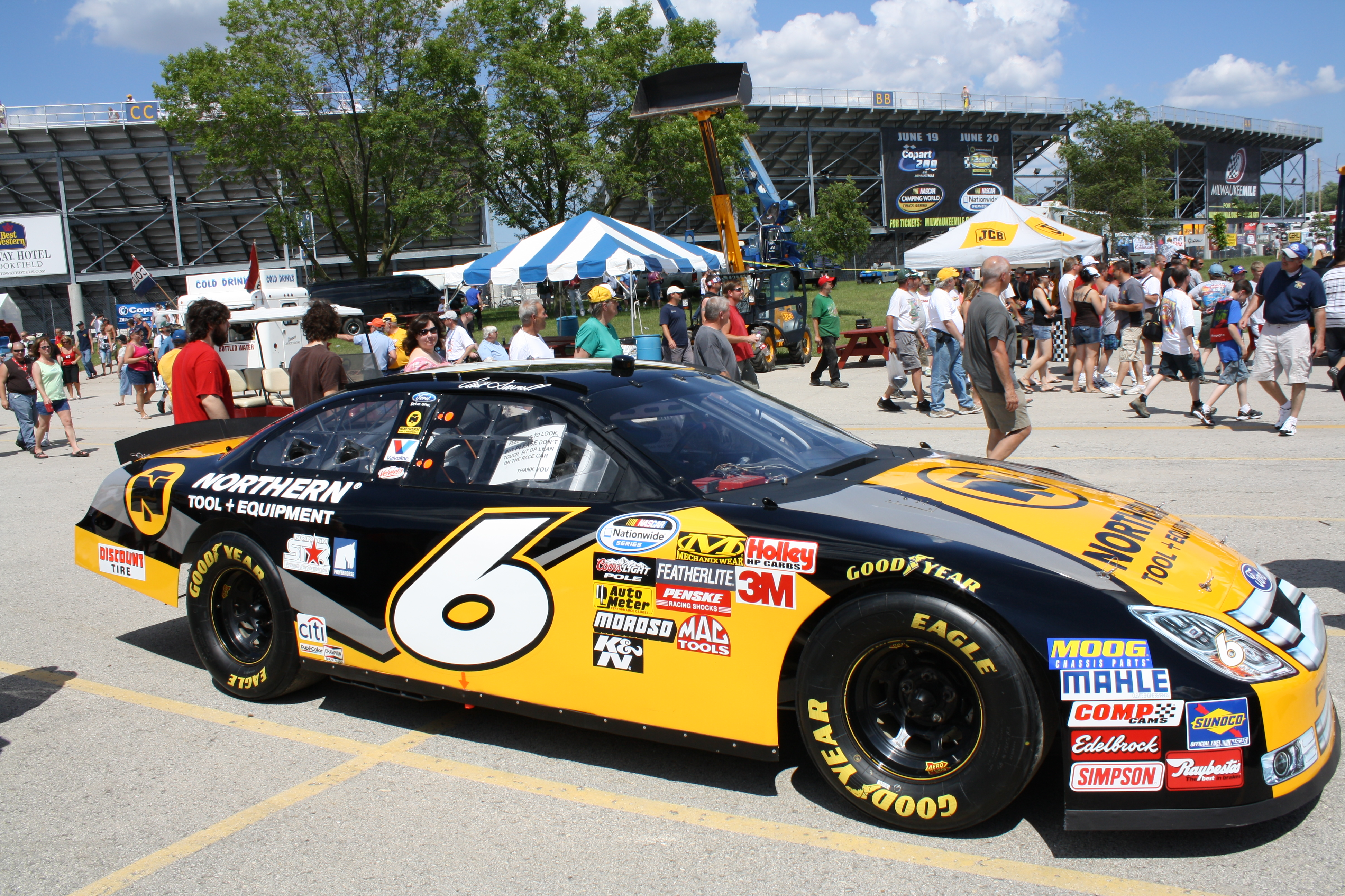 NASCAR driver Erik Darnells Ford at the 2009 Northern 250 Nationwide Series race at the Milwaukee Mile.